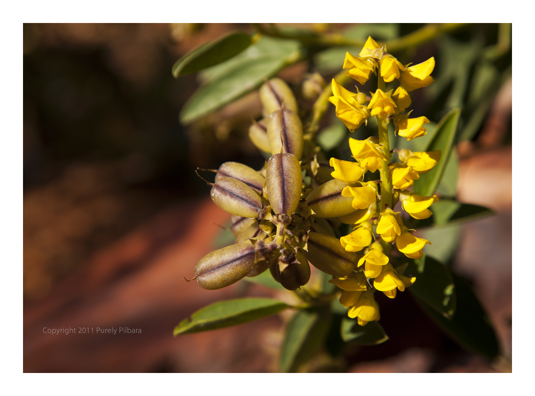 Crotalaria novae-hollandiae pod and flower